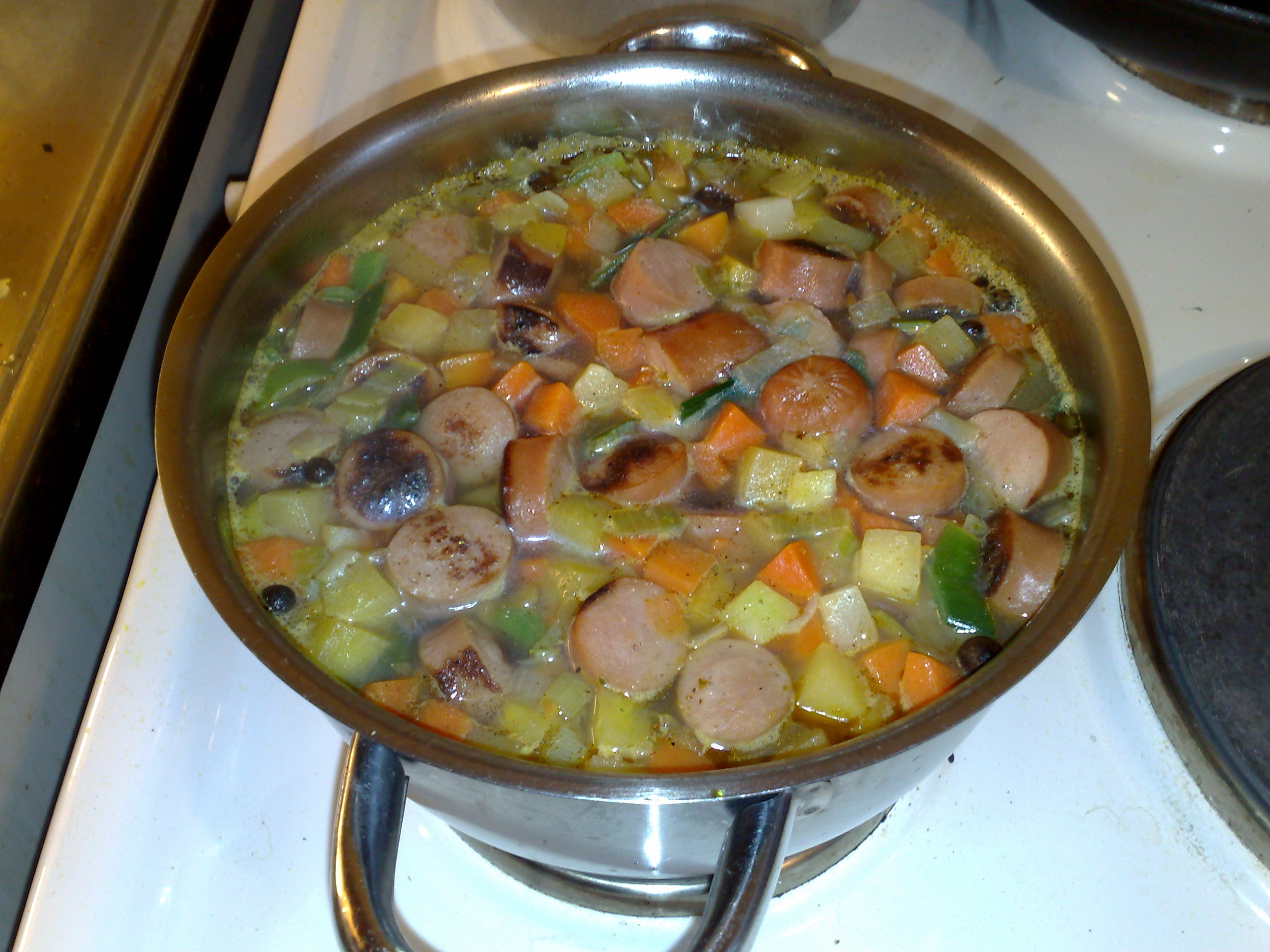 Soup with vegetables and sausages